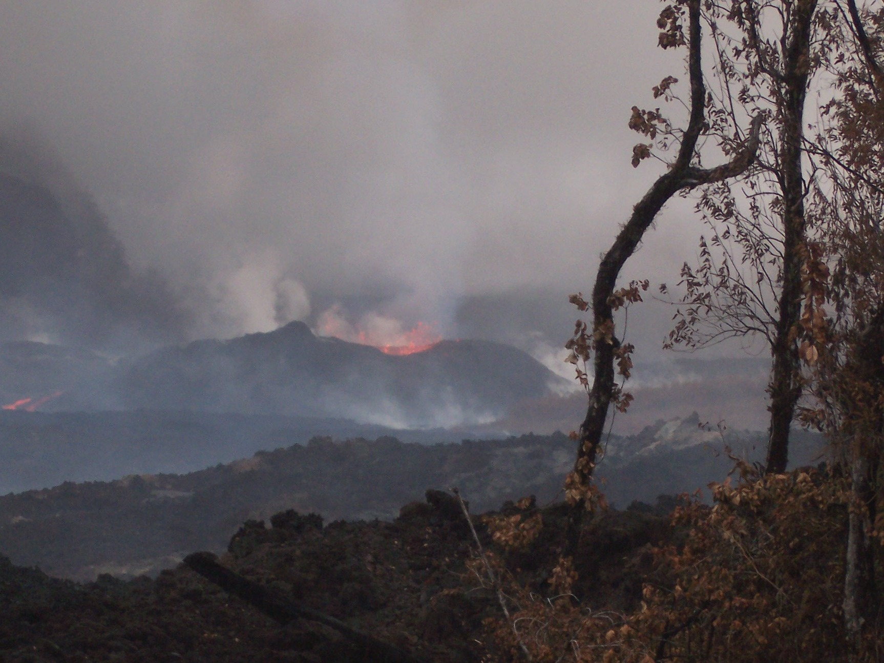 Eruption of Piton de la Fournaise seen from over the RN2